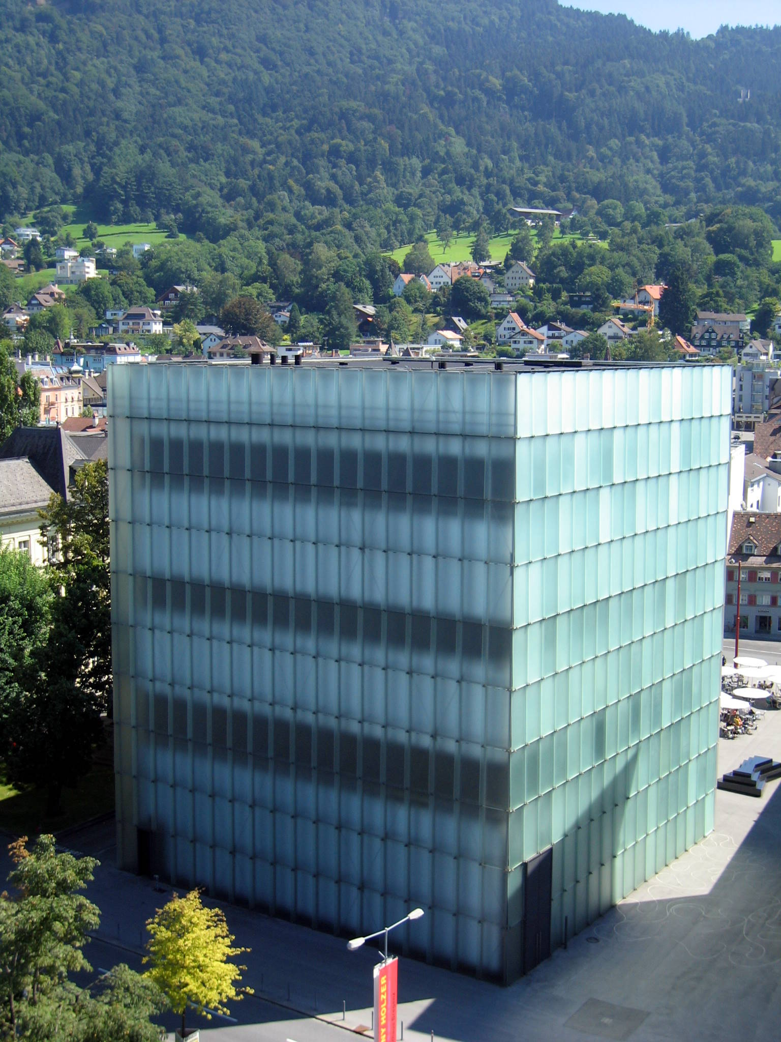 Description: Kunsthaus Bregenz; Source: own work; Date: 28.08.2004; Author: Florian Glöcklhofer